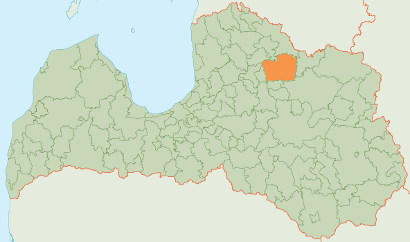 Map of Smiltene municipality, Latvia